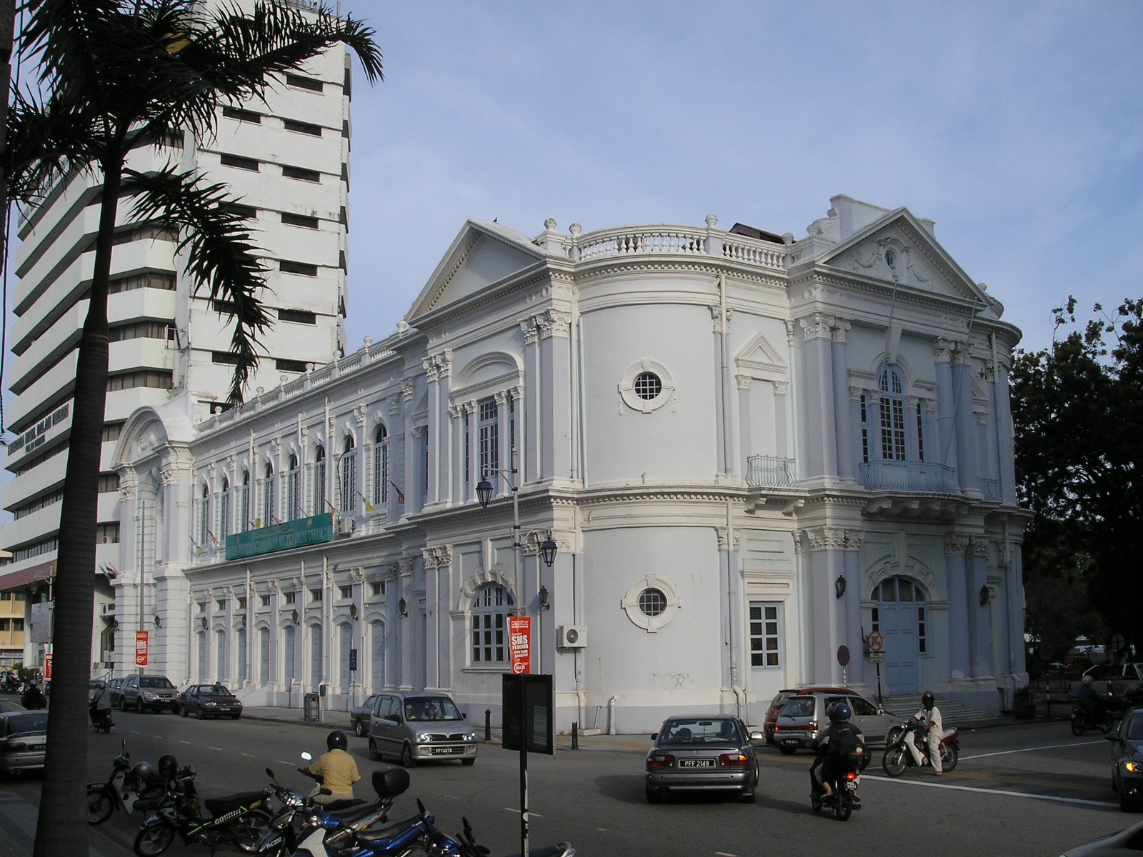 Image of bank buildings at Beach Street in George Town, Penang.